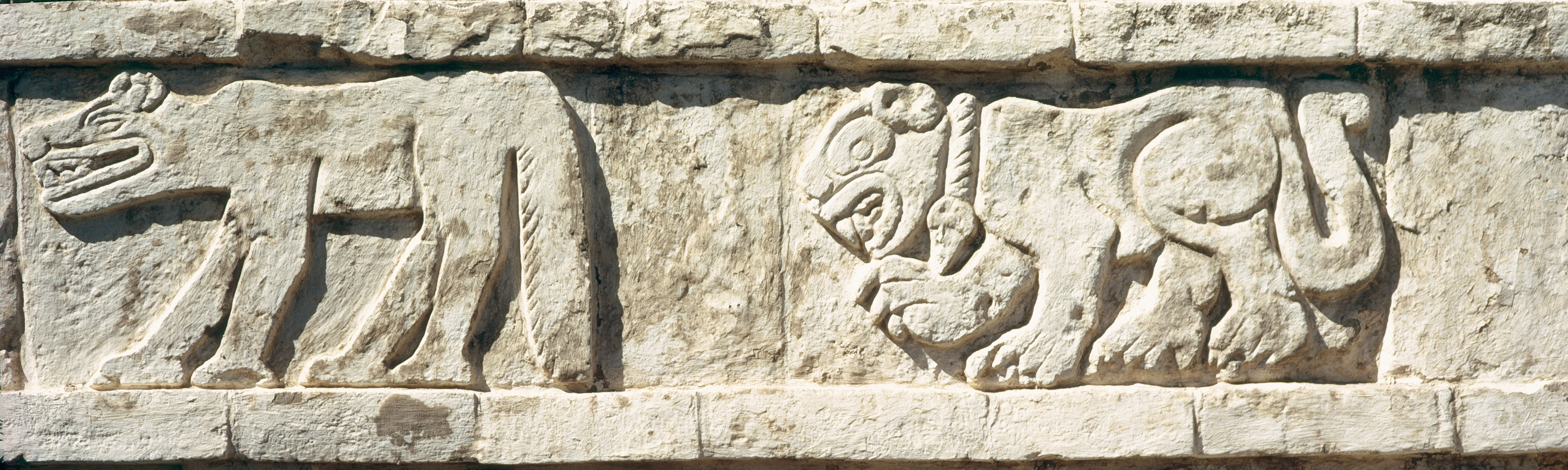 Tula, Hidalgo, Mexico: Pyramid B, relief of jaguars and coyotes